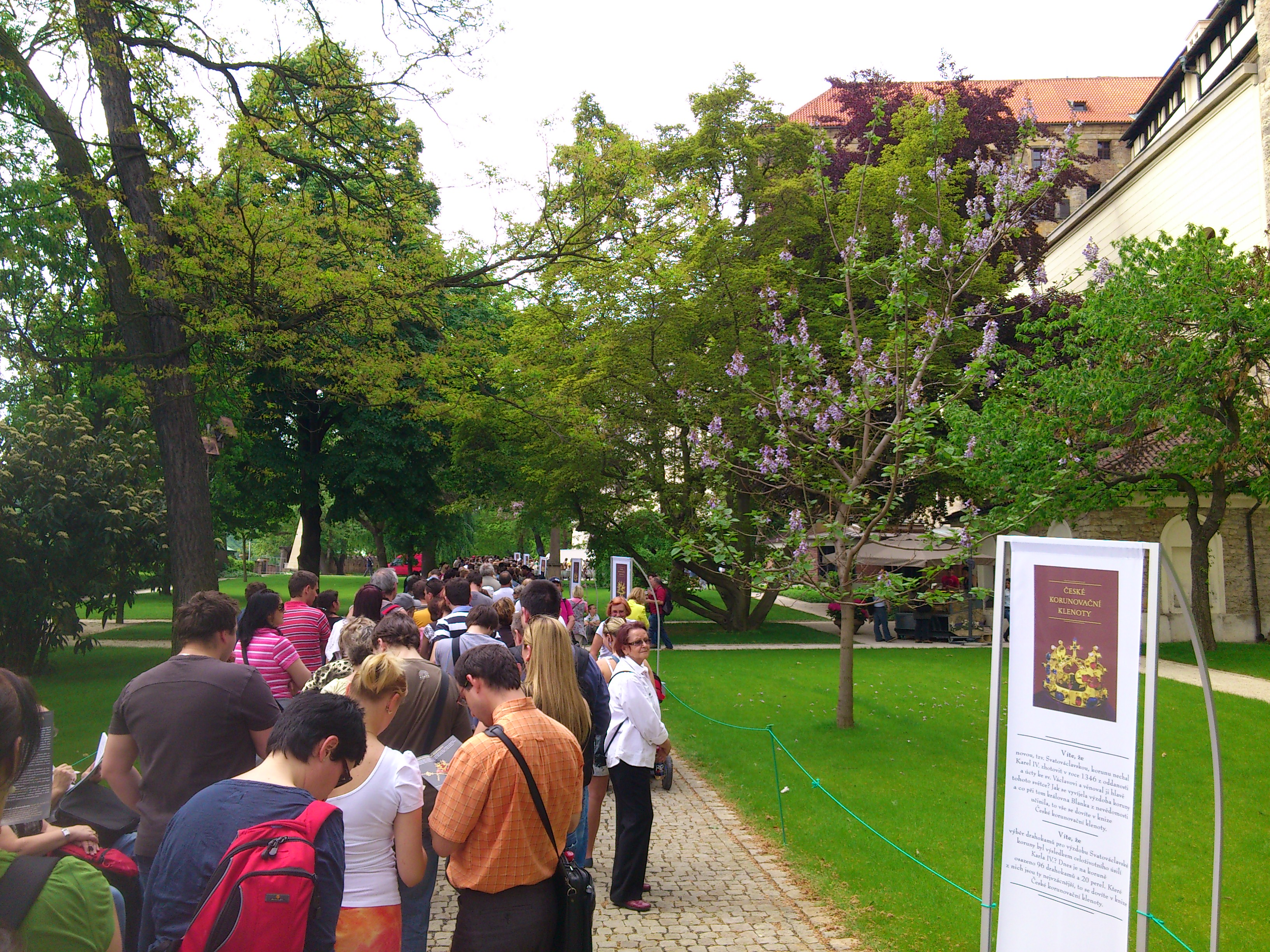 Queue to view the Czech Crown Jewels (2013)